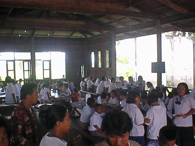 Children eating lunch at cafeteria of Sam Ruen Elementary School, taken by Kevin Borland, May 23, 2001.